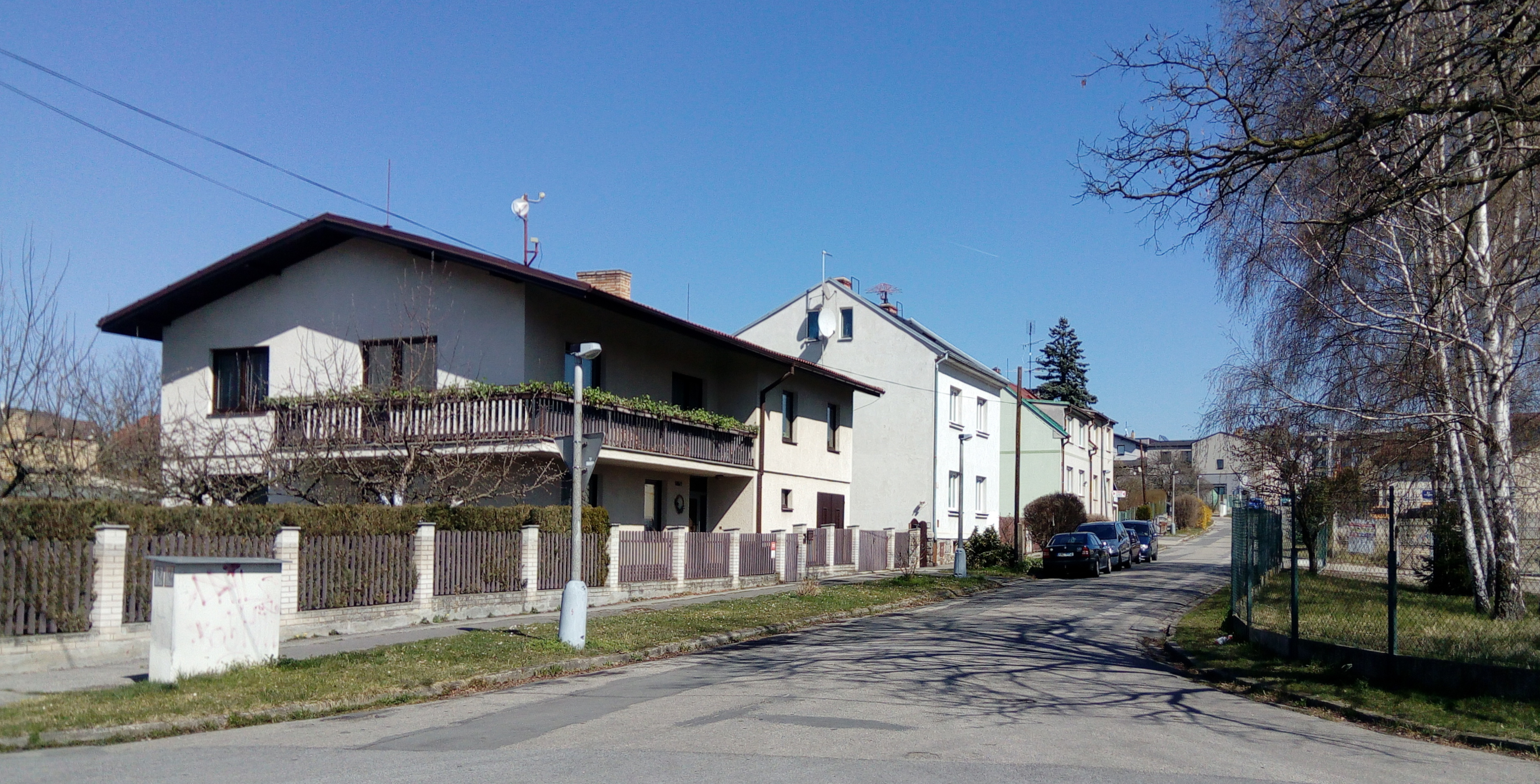 Mikuláše z Husi street in Husova kolonie, part of the city of České Budějovice, South Bohemian Region, Czechia